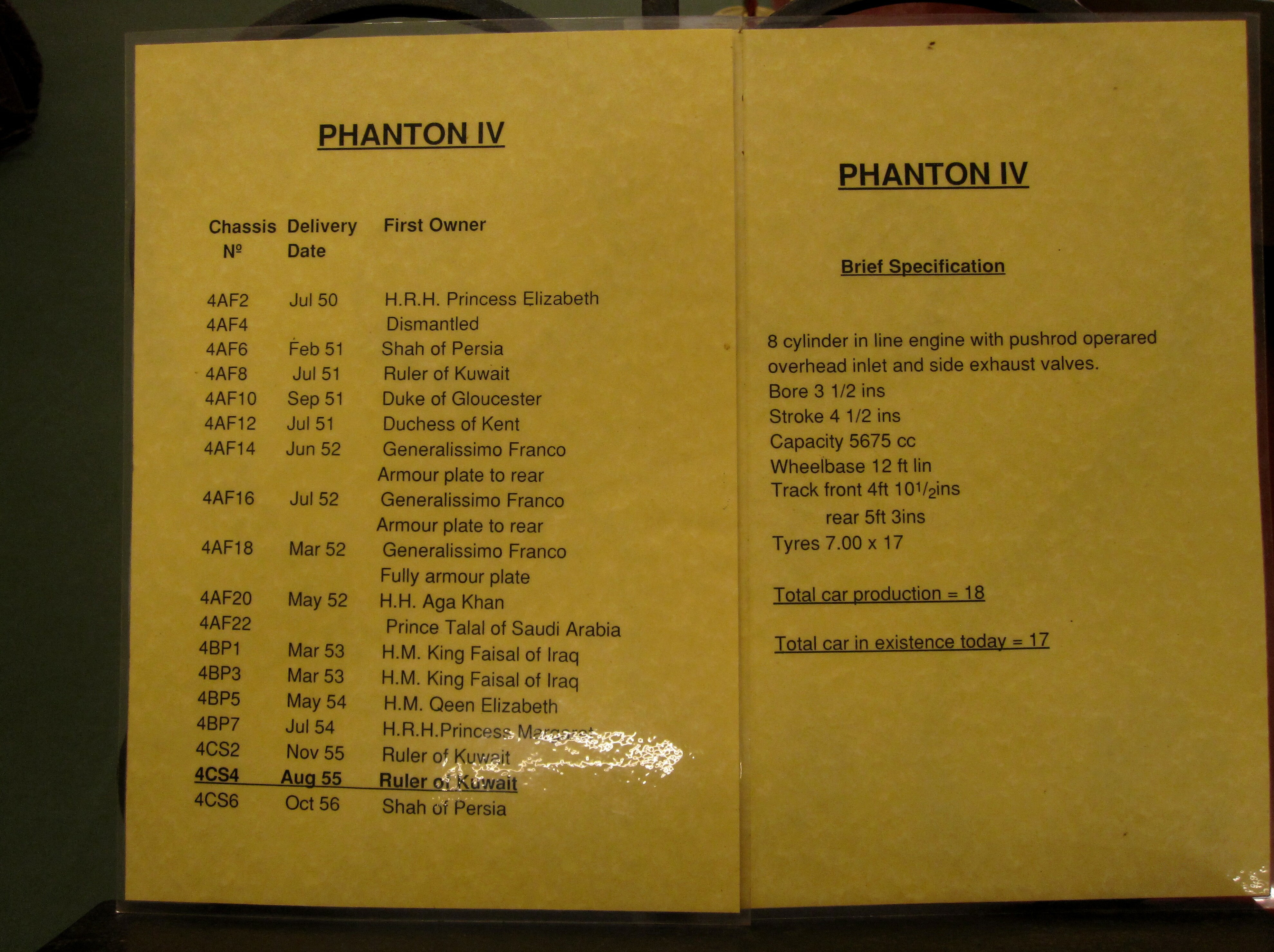 A list of the specs and all the units of the Phantom IV of 1955 that were made, out of 18, 17 are still in existance. Two belonged to Franco, I guess they're still in possession of the Spanish goverment. The one featured in this museum belonged to the Ruler of Kuwait.